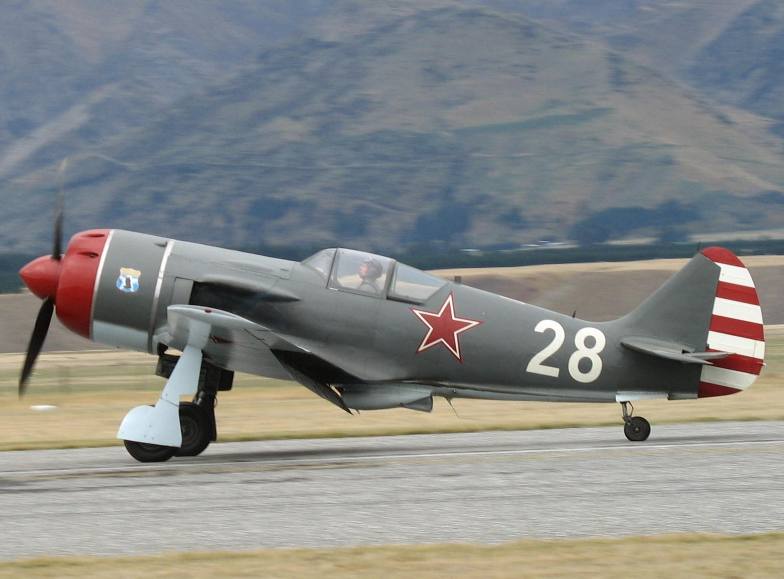 Lavochkin La-9 at the Warbirds Over Wanaka airshow, Wanaka, New Zealand, 2006.